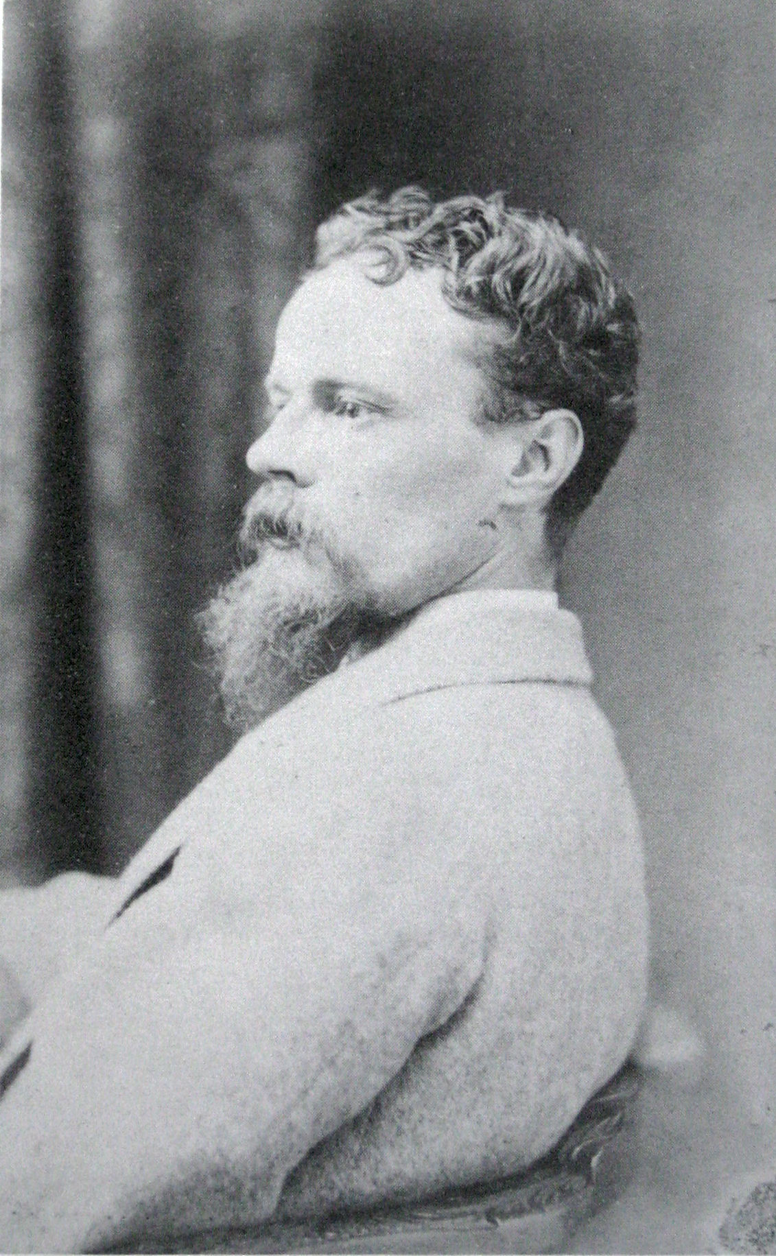 John Atkinson Grimshaw, photographed by Charles Allen Duval. Photograph of reproduction in book of card from Leeds City Art Gallery.